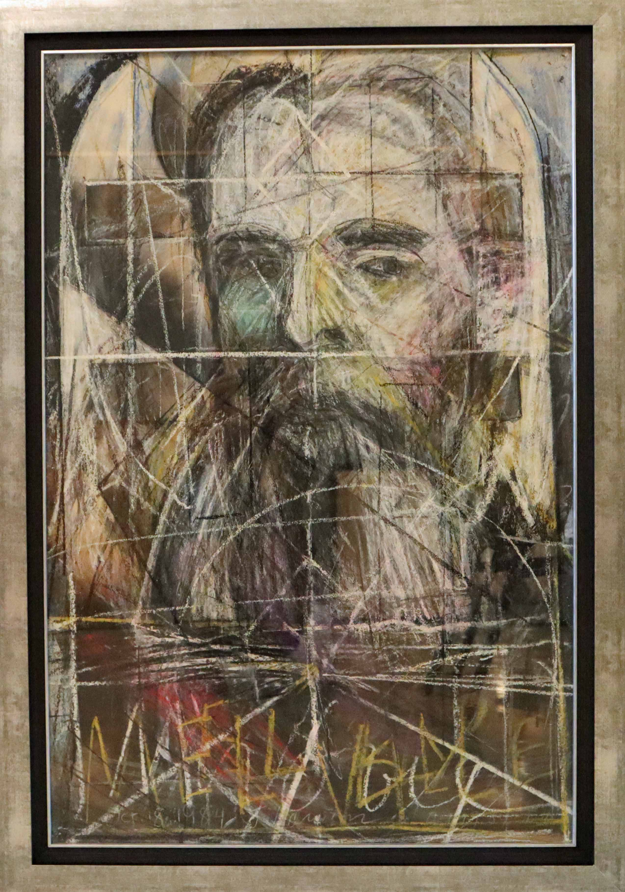 "Melville", October 18-19, 1984. Mixed Media on Paper.